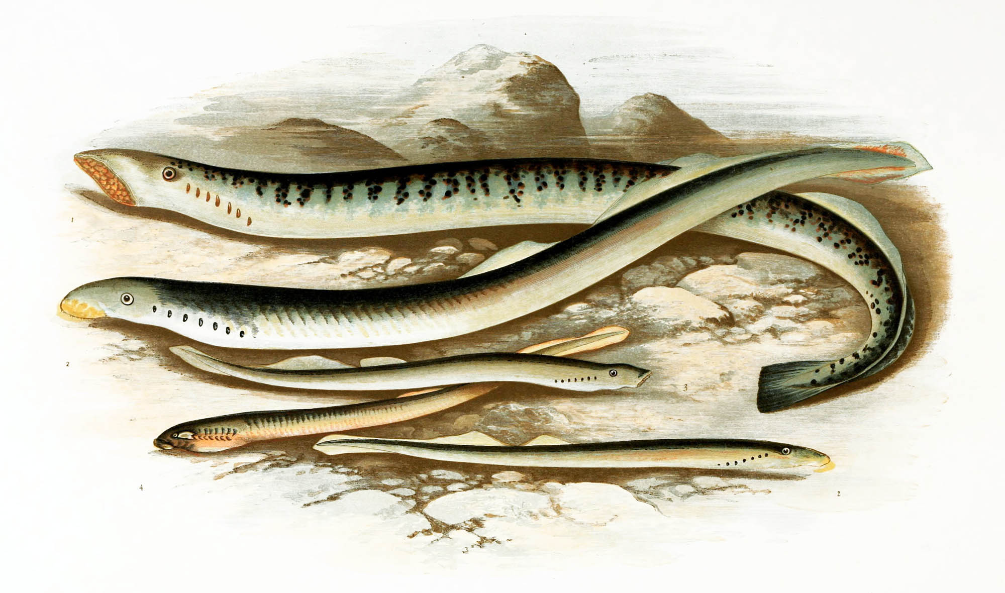 Lampreys 1. Sea lamprey (Petromyzon marinus) 2. Lampern (Lampetra fluviatilis) 3 & 4. Planer's lamprey (Lampetra planeri)